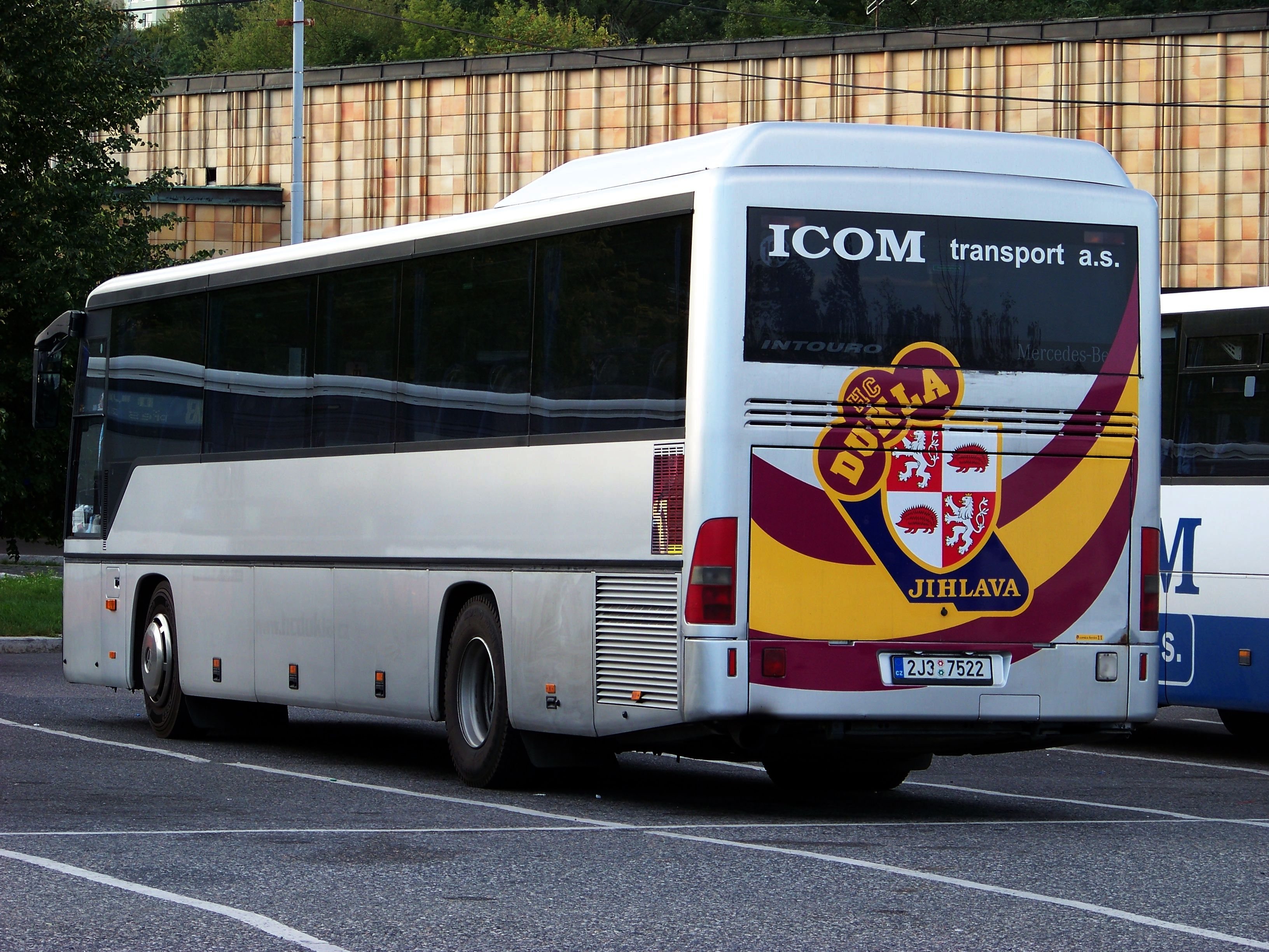 Prague-Chodov, the Czech Republic. Roztyly bus station. Mercedes-Benz Intouro bus of ICOM transport.